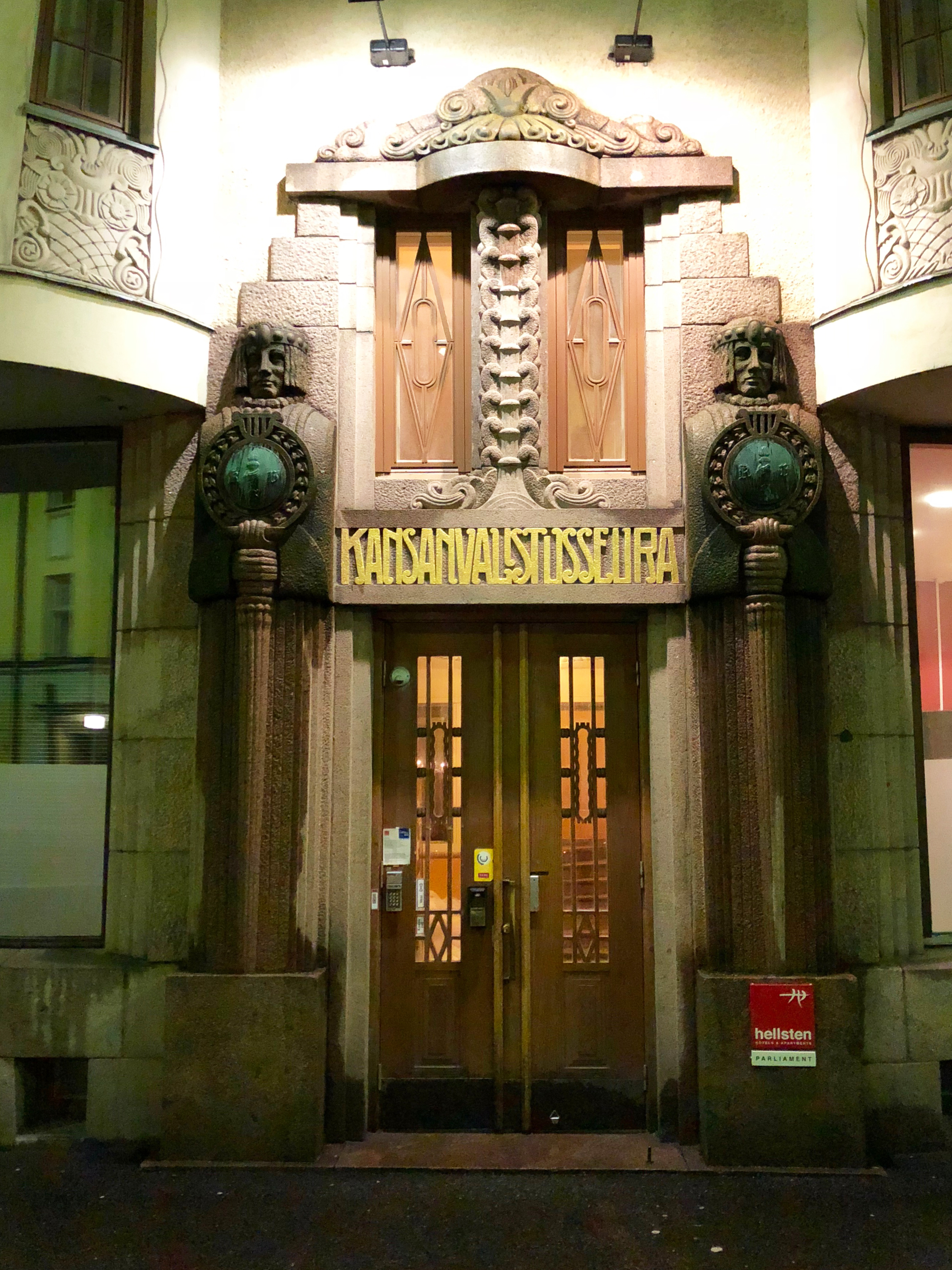 Kansanvalistusseura, Museokatu 18 Helsinki. Built in 1913. Architect Emil Svensson